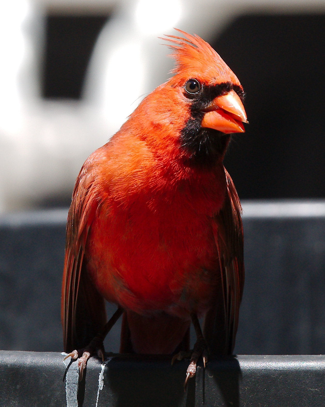 Male Northern Cardinal in Manhasset, NY